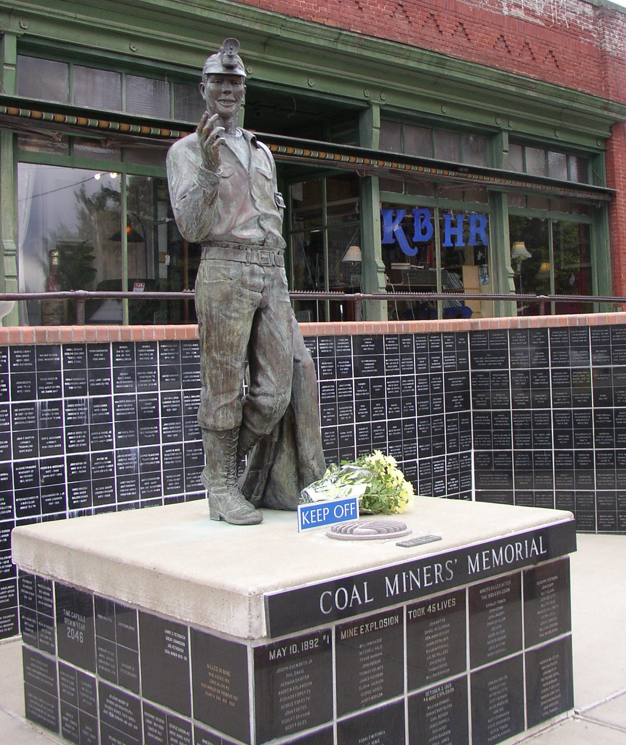 Photo of Roslyn, Washington state. USA. Shows Miner's Memorial in the foreground and the radio studio film set for Northern Exposure television series. All rights released to the public domain. Photo taken by Williamborg 02:26, 2 June 2006 (UTC)